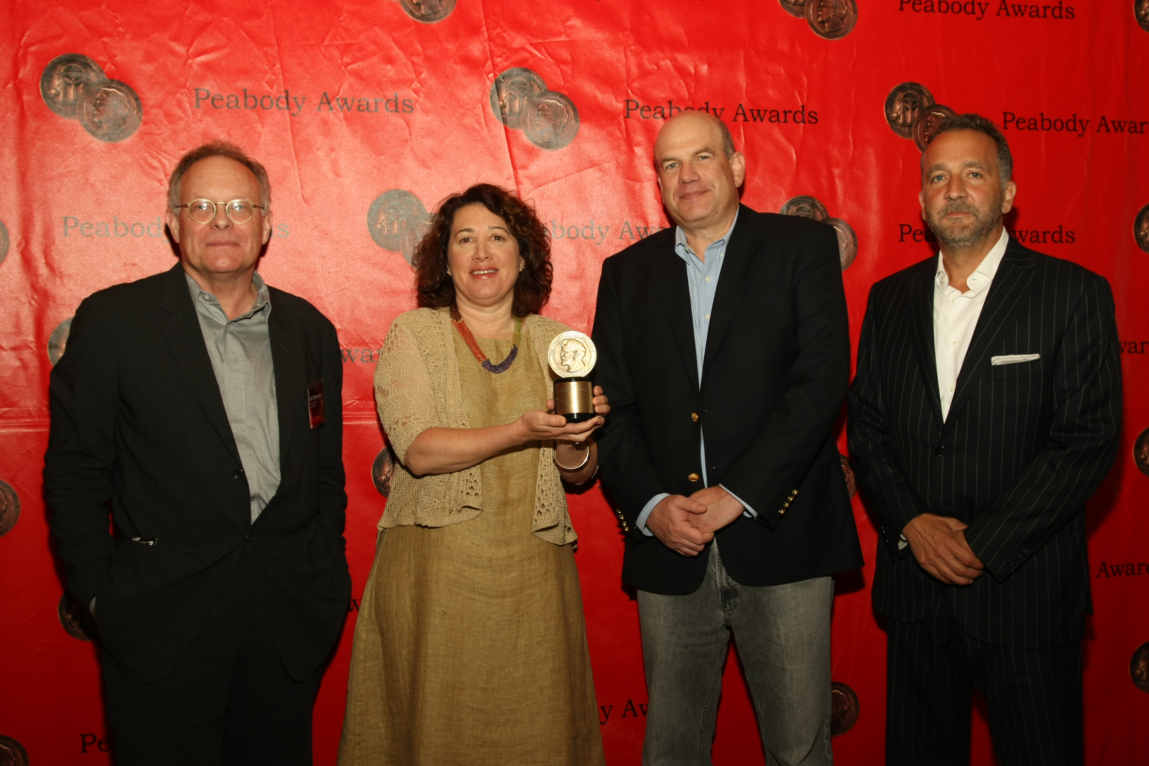 PHOTO CREDIT: ANDERS KRUSBERG / PEABODY AWARDS Eric Overmyer, Nina Kostroff Noble, David Simon, and George Pelecanos, 71st Annual Peabody Awards Luncheon Waldorf-Astoria Hotel, May 21, 2012